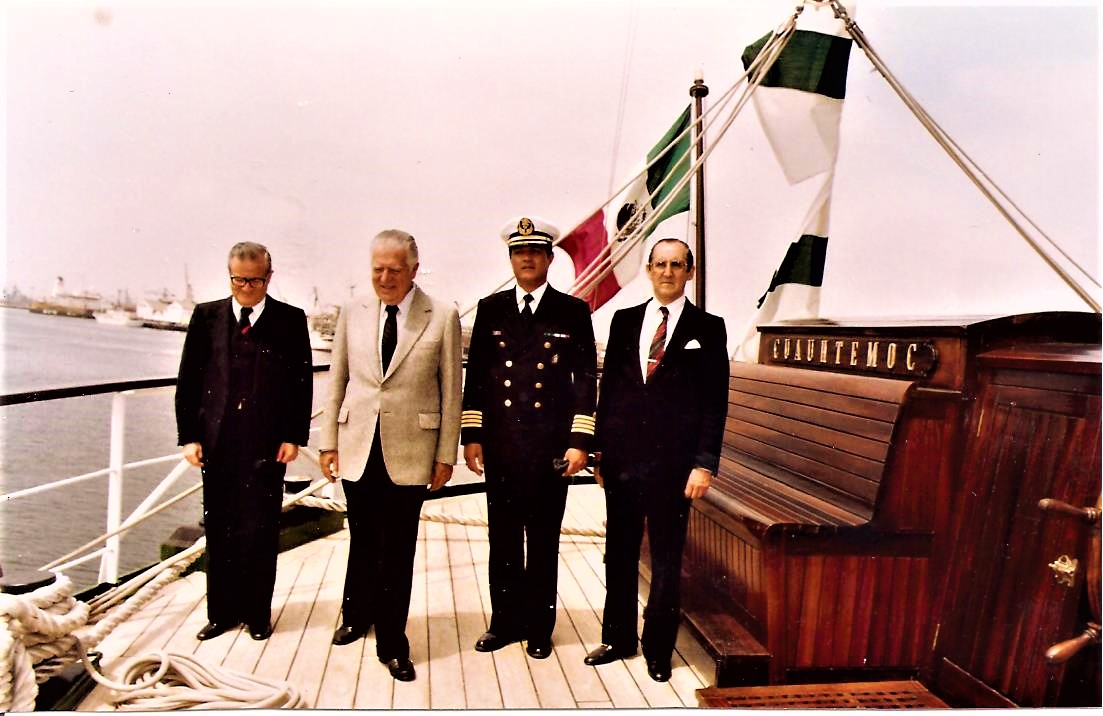 H.E. Ambassador Moreno Pino (Mexico) receives H.E. President Fernando Belaúnde Terry, (Peru), in the ARM Cuauhtémoc (BE-01), the sail training vessel of the Mexican Navy.